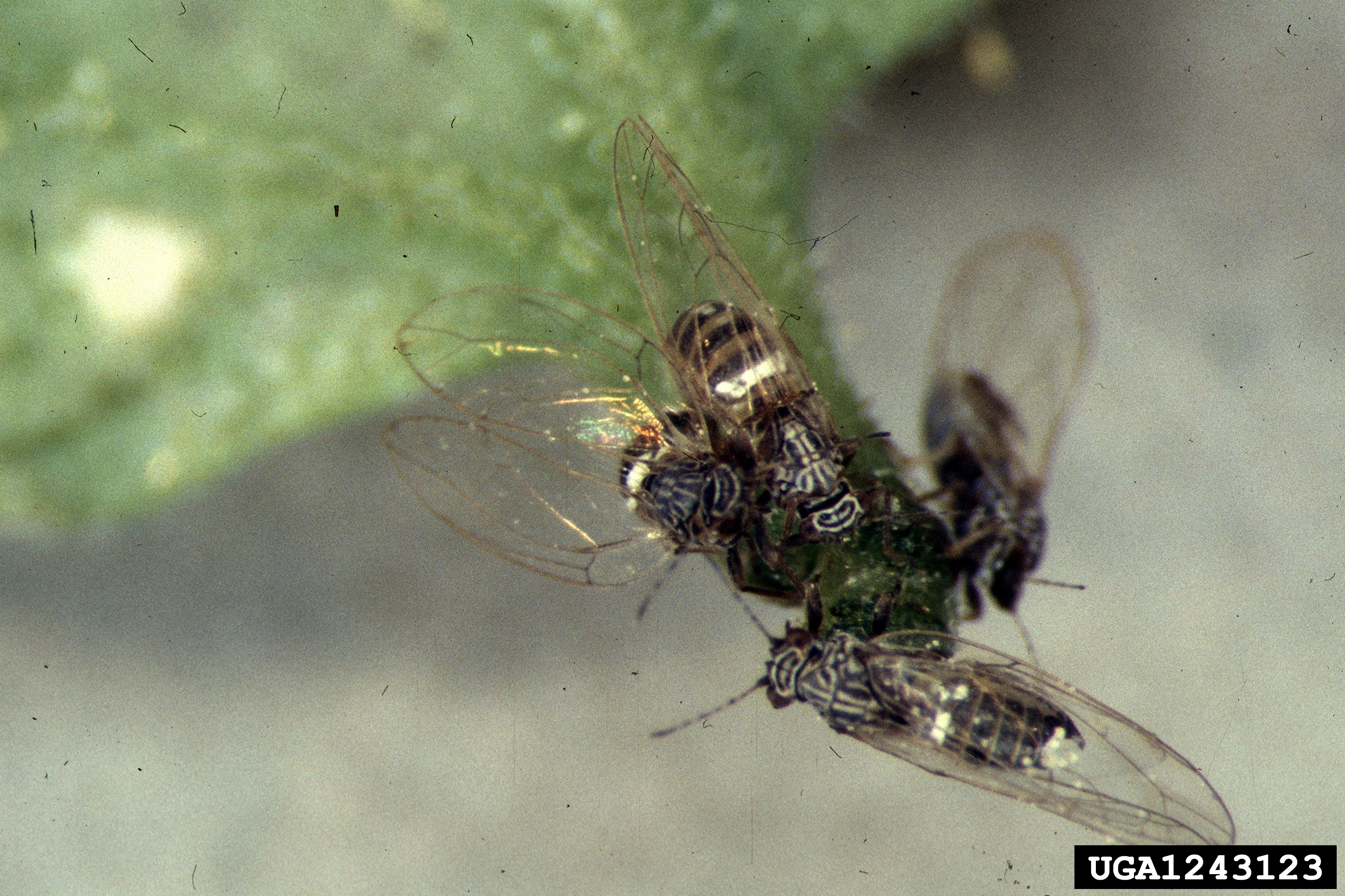 Paratrioza cockerelli , Adults dispersing from tip of plant [tomato (Lycopersicon esculentum Mill.)]